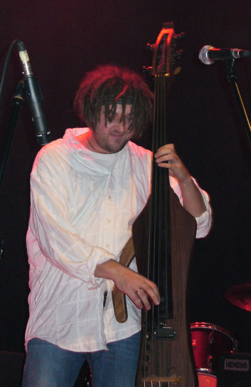 Karim Martusewicz - double-bassist and guitarist bass of band Voo Voo